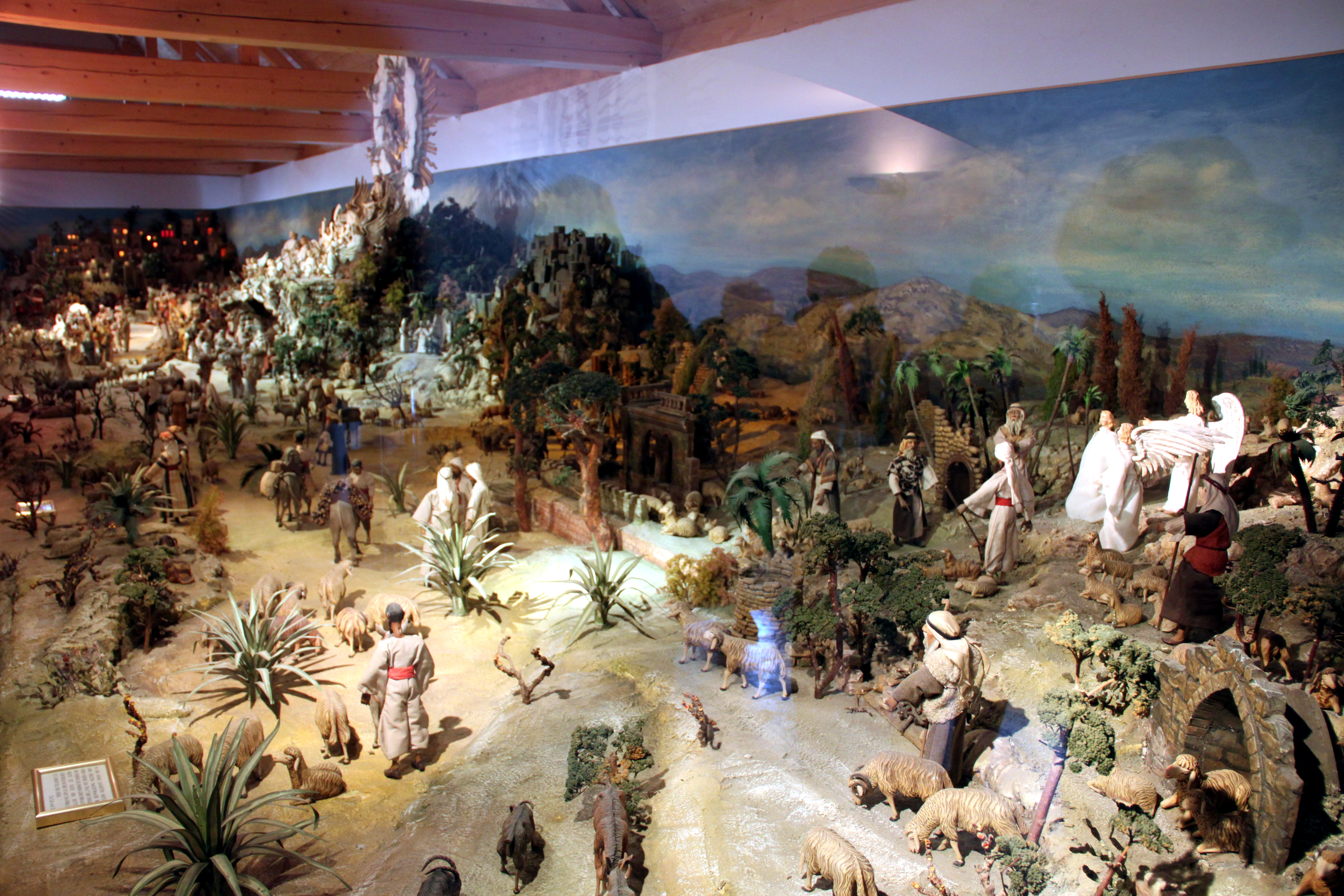 Pöttmesser’s nativity scene. Giant nativity scene in the manse of Christkindl, municipality of Steyr (Upper Austria). One of the largest nativity scenes in the world. It was created by and named after the South Tyrol figure whittler Ferdinand Pöttmesser (1895 - 1977). Pöttmesser began his work on the scene in 1959. It covers an area of 58 m² (69.4 sq yds) and displays an Oriental landscape populated by 778 whittled and dressed figures measuring up to 30 cm (11.8 inches).